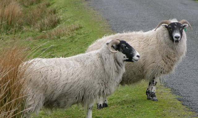 A pair of Scottish Blackface ewes in North Ayshire